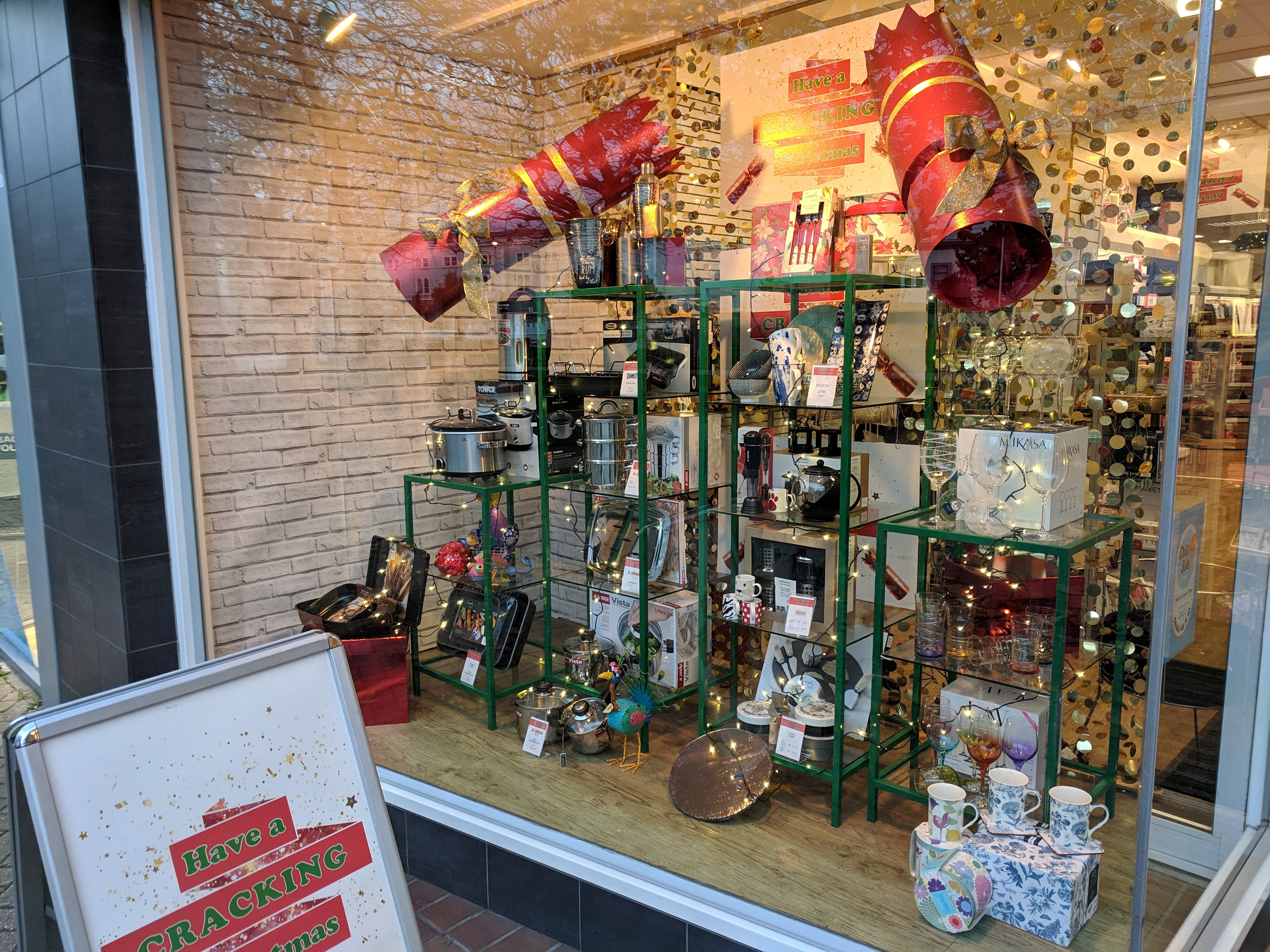 The Walker & Ling Christmas window has won the Weston-super-Mare Best Dressed Christmas Window in the past